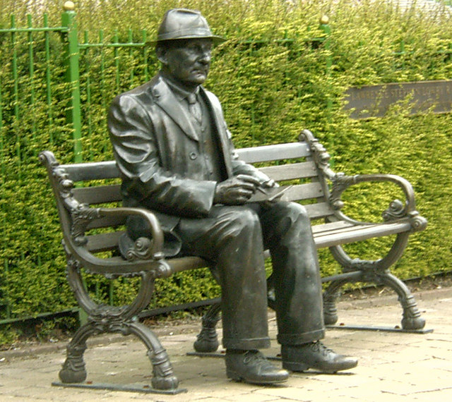 L.S.Lowry Statue of Laurence Stephen Lowry. The artist famous for his matchstick men paintings of the industrial north of England spent the last 25years or so of his life living here in Mottram.